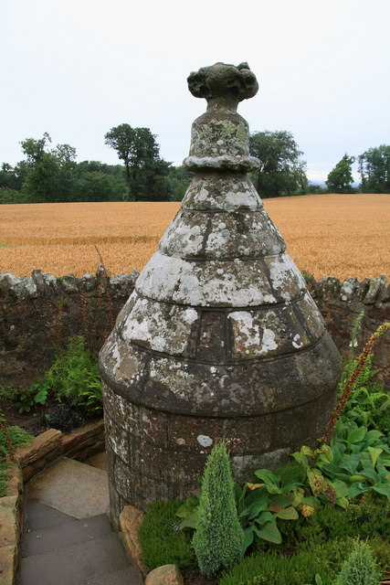 Stenton Rood Well A 16th century wellhead with conical roof. It is located to the northeast of the village beside the road.